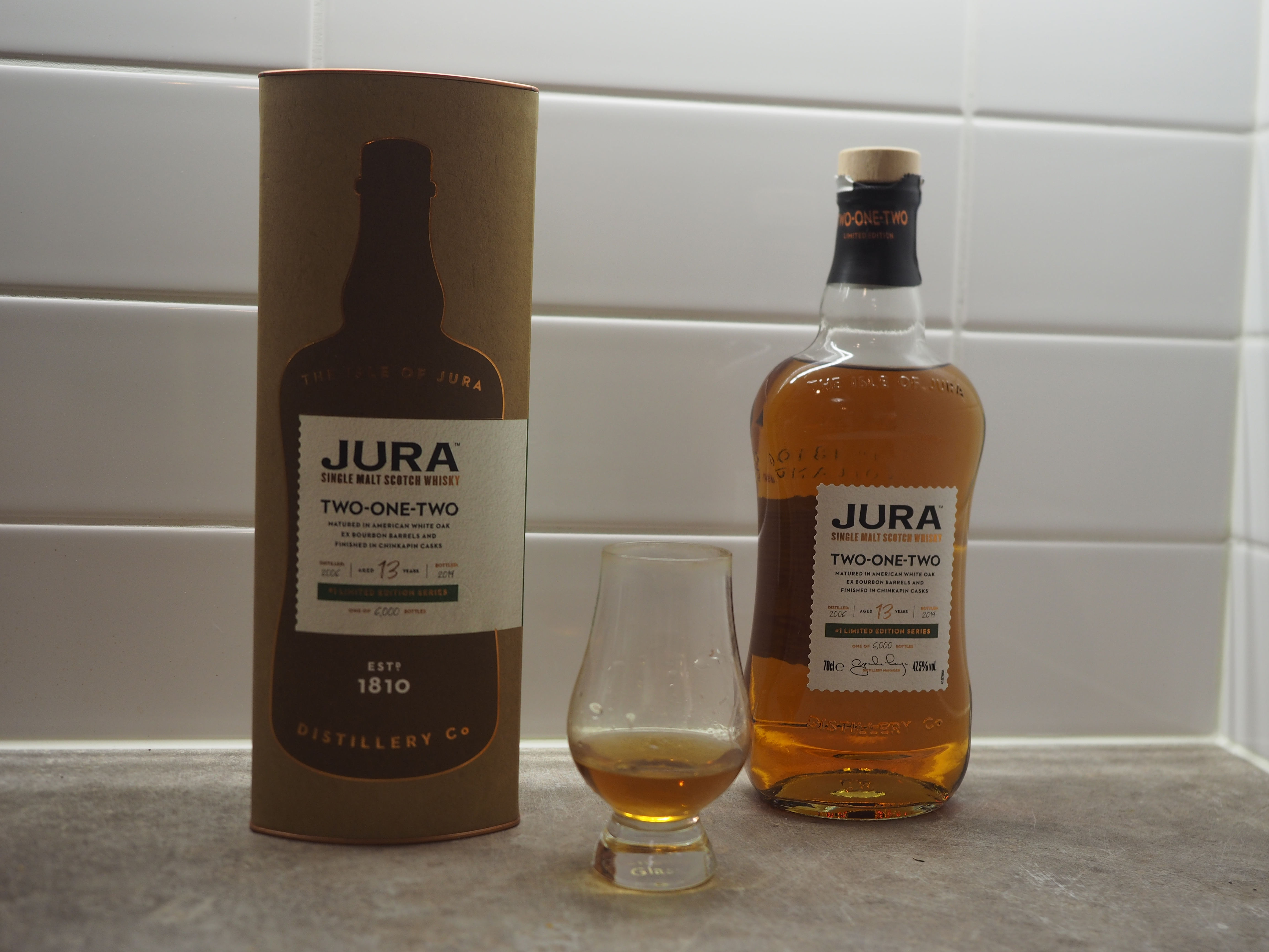 A bottle of Jura Two-One-Two single malt Scotch whisky with its protective casing, with a little part of the whisky poured into a whisky glass. The bottle was originally wrapped in special paper wrapping, the wrapping has been taken away.